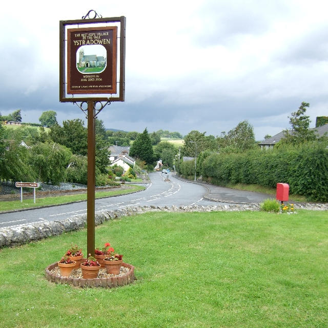 Ystradowen The sign reads : The best kept village in the Vale YSTRADOWEN Winners in 2002 2003 2006 Community award winner in Wales 2002